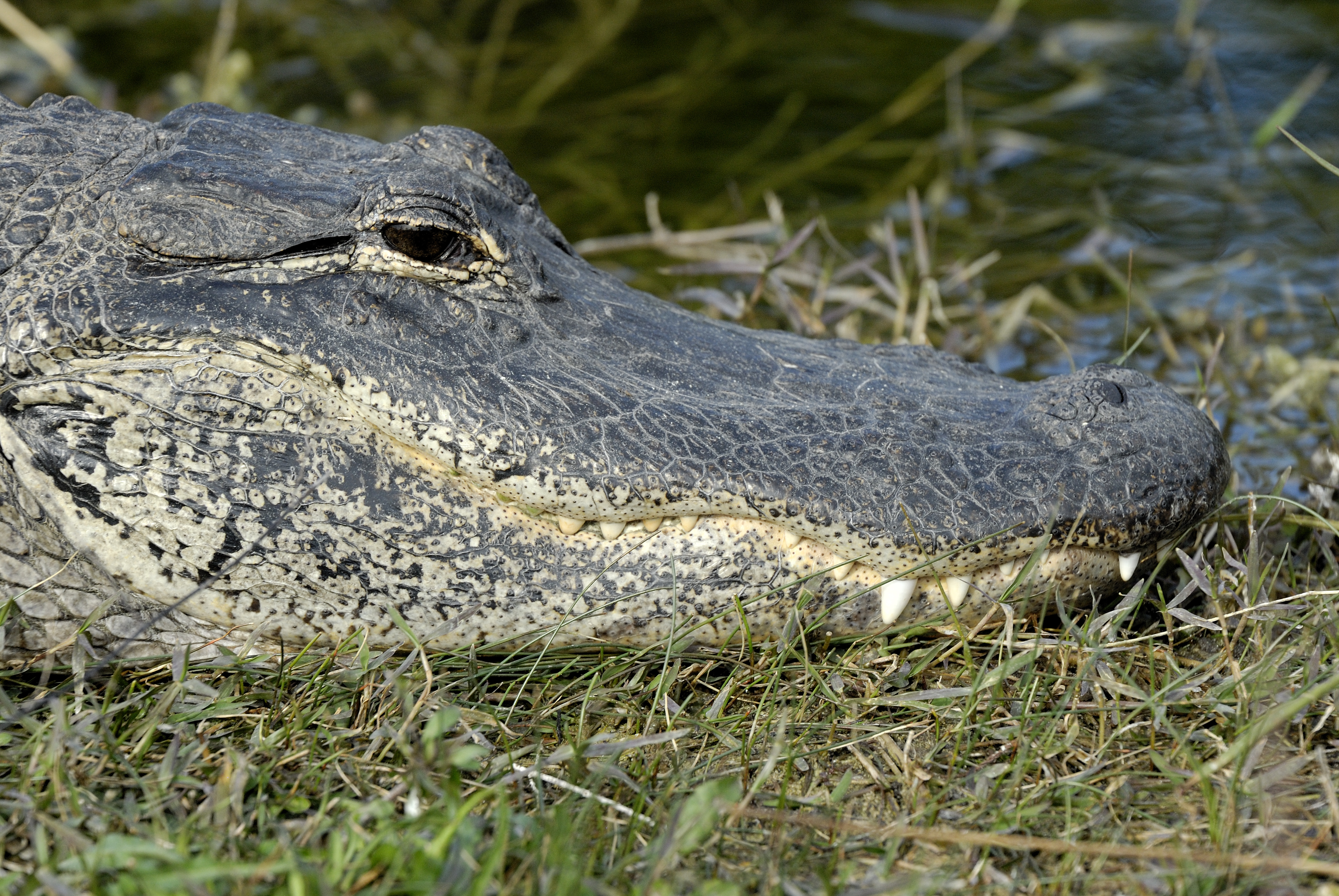 American Alligator (Alligator mississippiensis) Turner River Everglades City